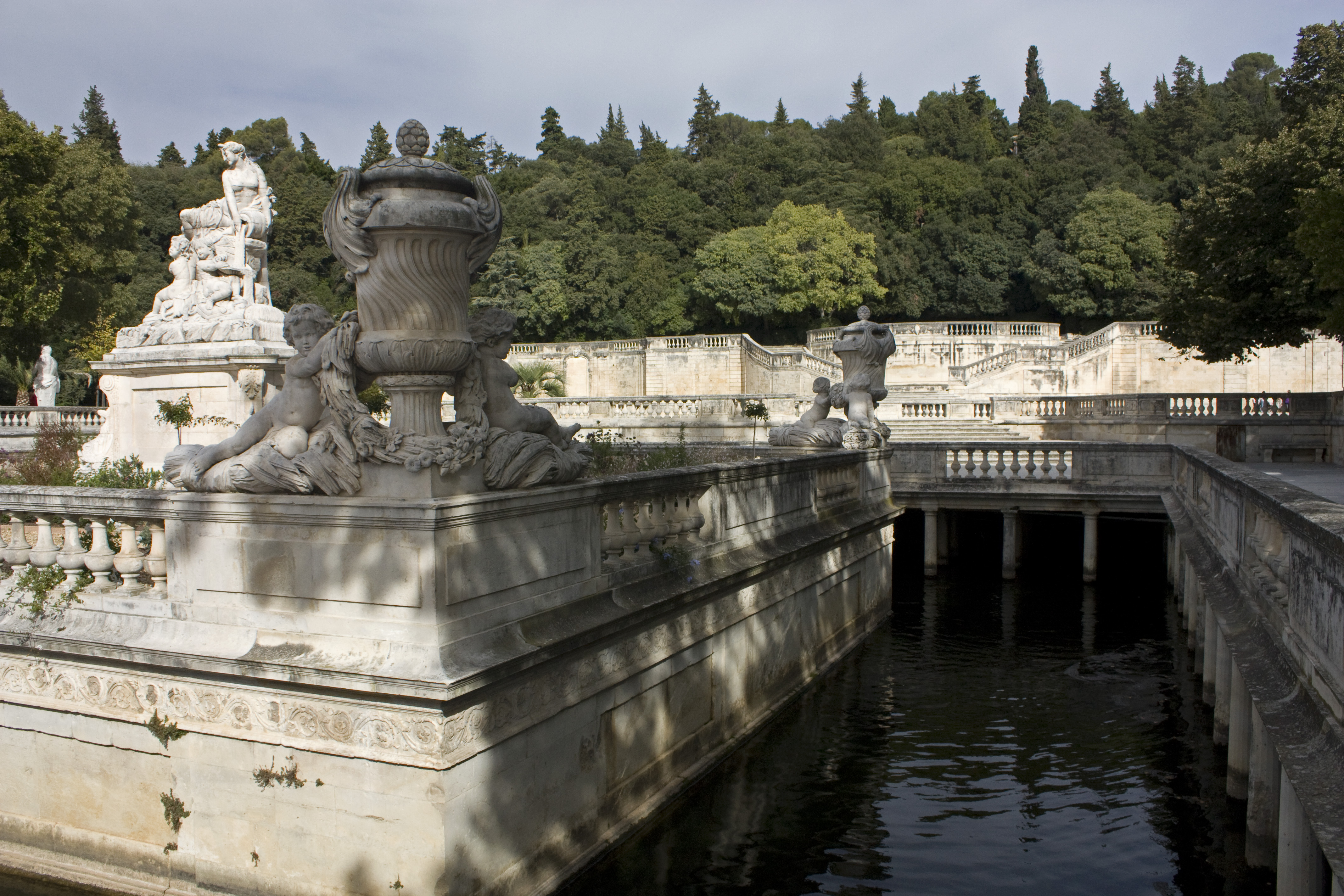 The nymphaeum is surrounded by a terrace supported by columns, to be an important water reserve.